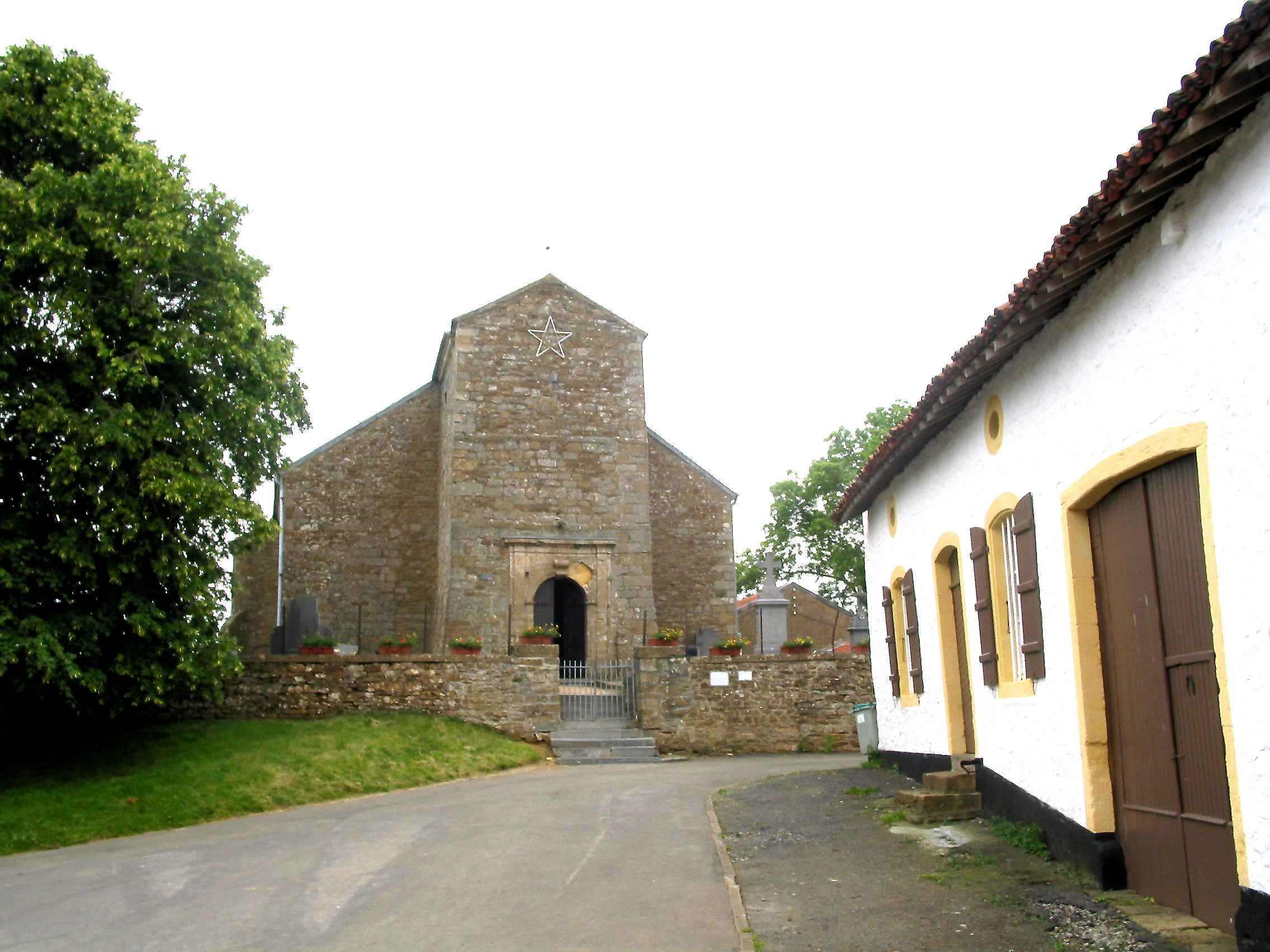 Montquintin (Belgium), the St Quentin church (XIIth century).